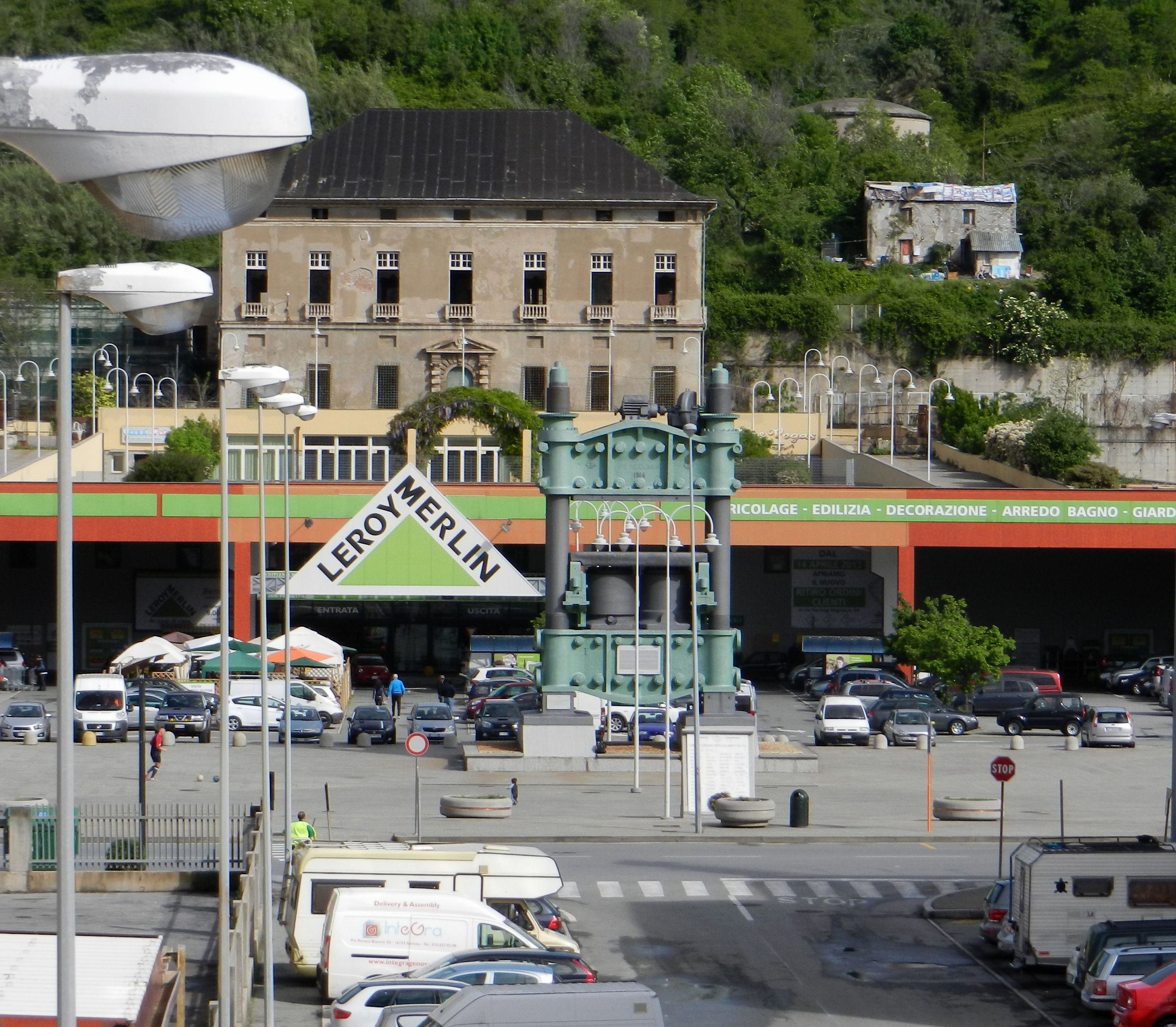 Genoa (Italy), quarter of Campi, the central square of the mall with the big hammer of former Ansaldo Foundry